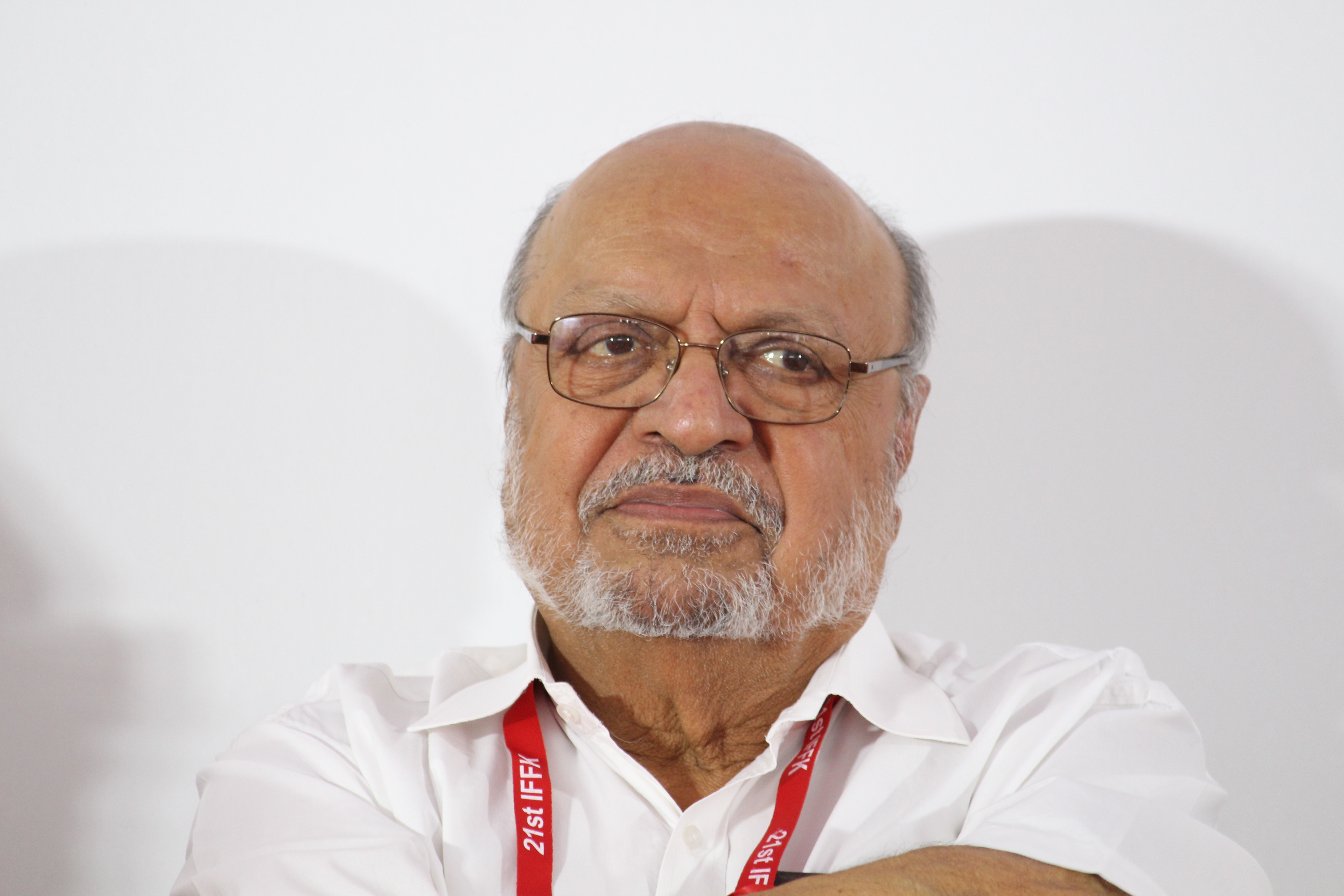 Shyam Benegal, Indian director and screenwriter at International Film Festival of Kerala 2016